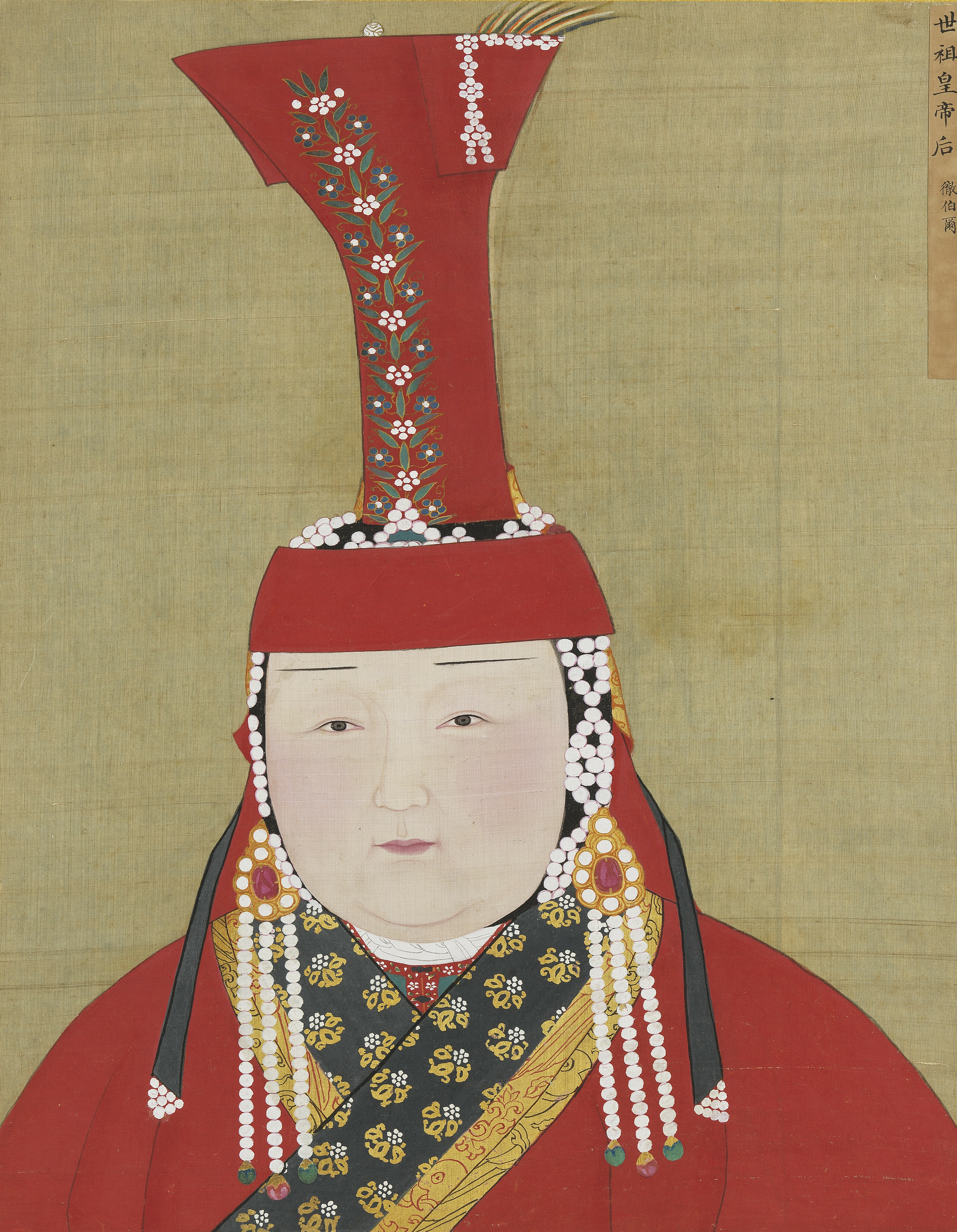 Chabi, wife of Khubilai (a.k.a. Shizu). Paint and ink on silk. Portrait cropped out of a page from an album depicting several consorts of Yuan emperors (Yuandai dihou banshenxiang), now located in the National Palace Museum in Taipei (inv. nr. zhonghua 000325). Original size is 48 cm wide and 61.5 cm high. For the full page, see Image:YuanEmpressAlbumChabiAndTaji.jpg.Note: Some rows or columns of pixels near the margins of the pic may have been manipulated by me (Yaan) for optics. For an unaltered (except cropping) version, see the image at Image:YuanEmpressAlbumChabiAndTaji.jpg.